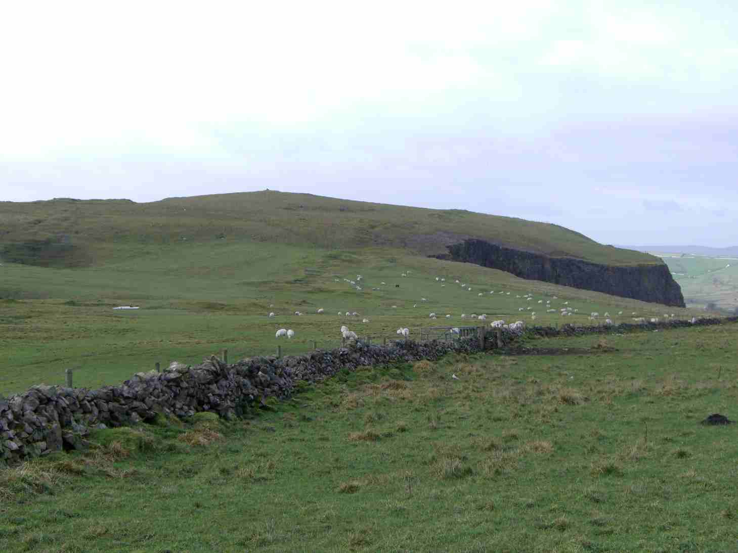 Personal picture taken by Mick Knapton